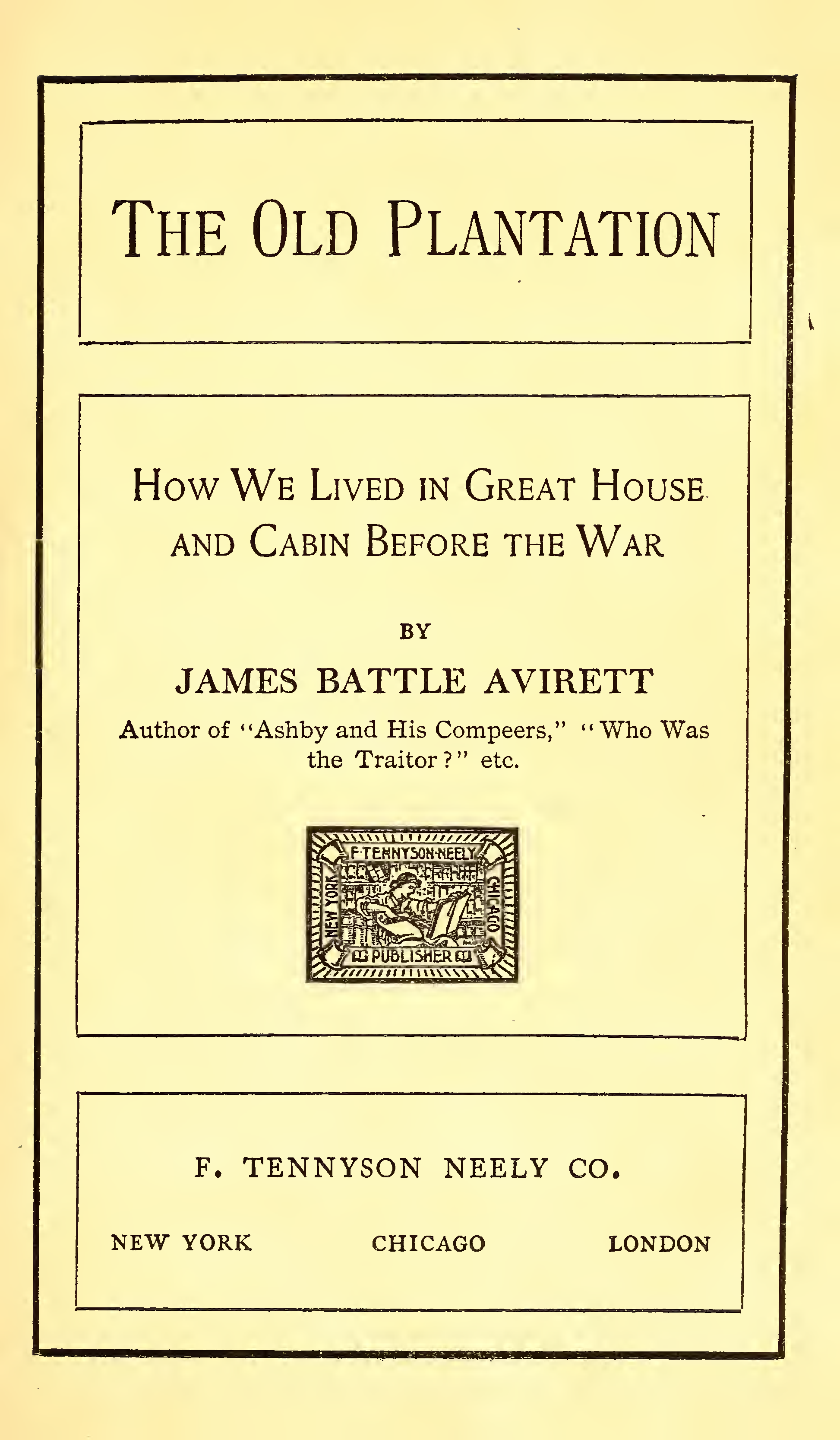 Frontispiece of The Old Plantation: How We Lived in Great House and Cabin Before the War by James Battle Avirett (1835-1912), published by F. Tennyson Neely Co., New York, 1901.